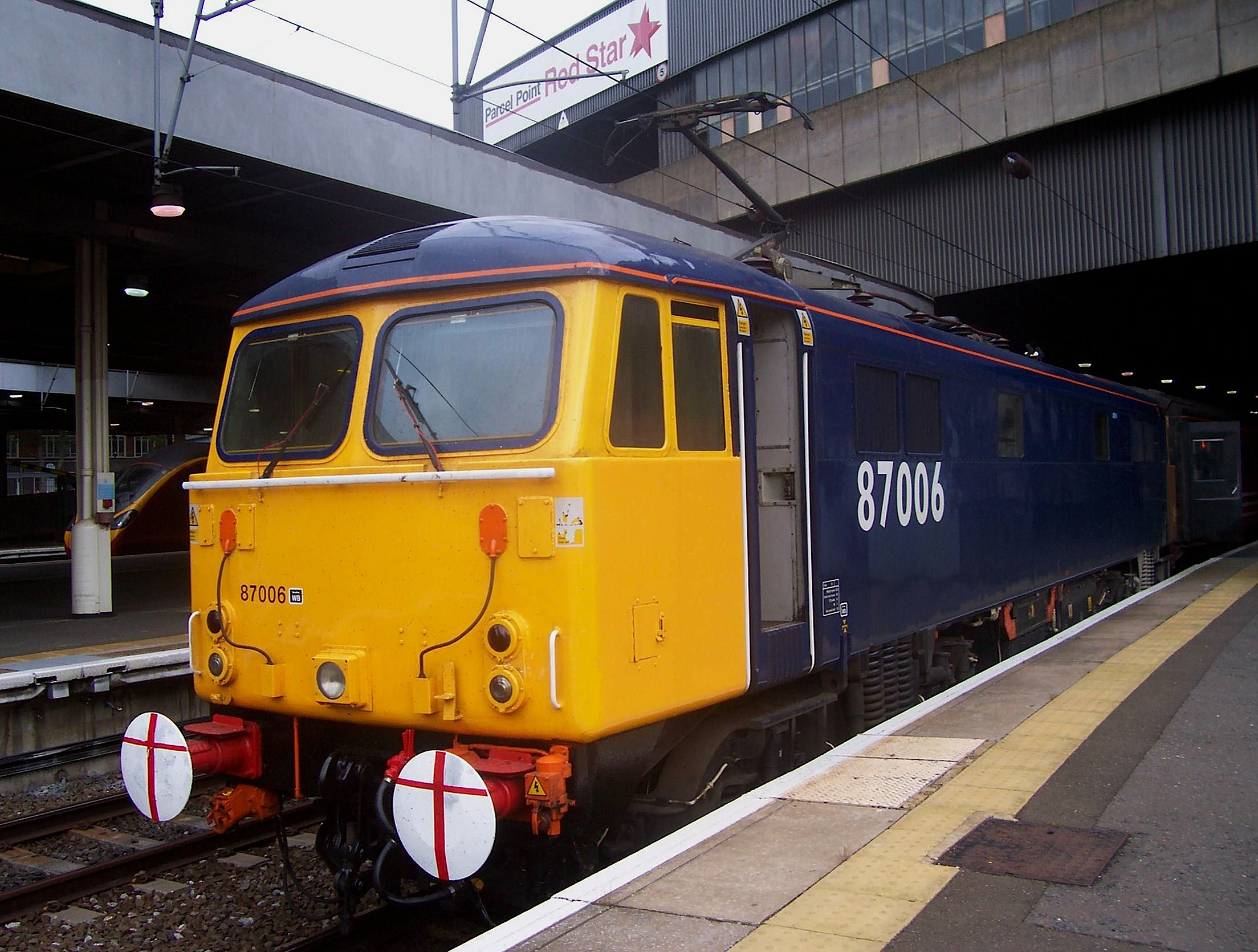 Direct Rail Services Class 87/0 No. 87006 at London Euston at the head of a Virgin Trains West Coast service bound for Birmingham New Street